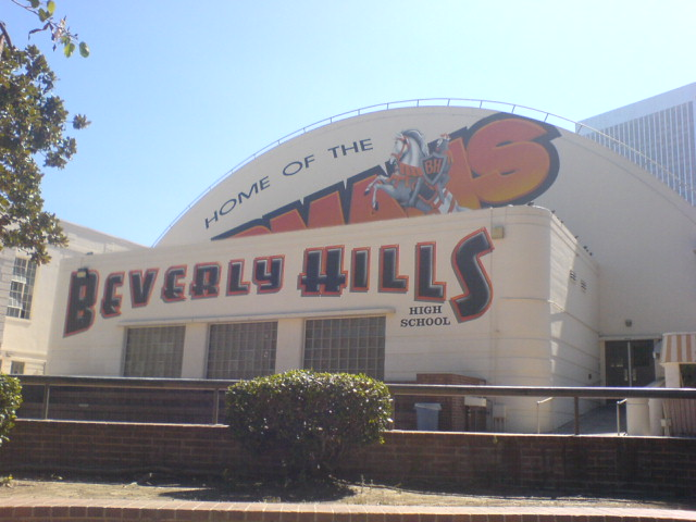 Beverly Hills High School Gymnasium. Beverly Hills High School "Swim Gym".